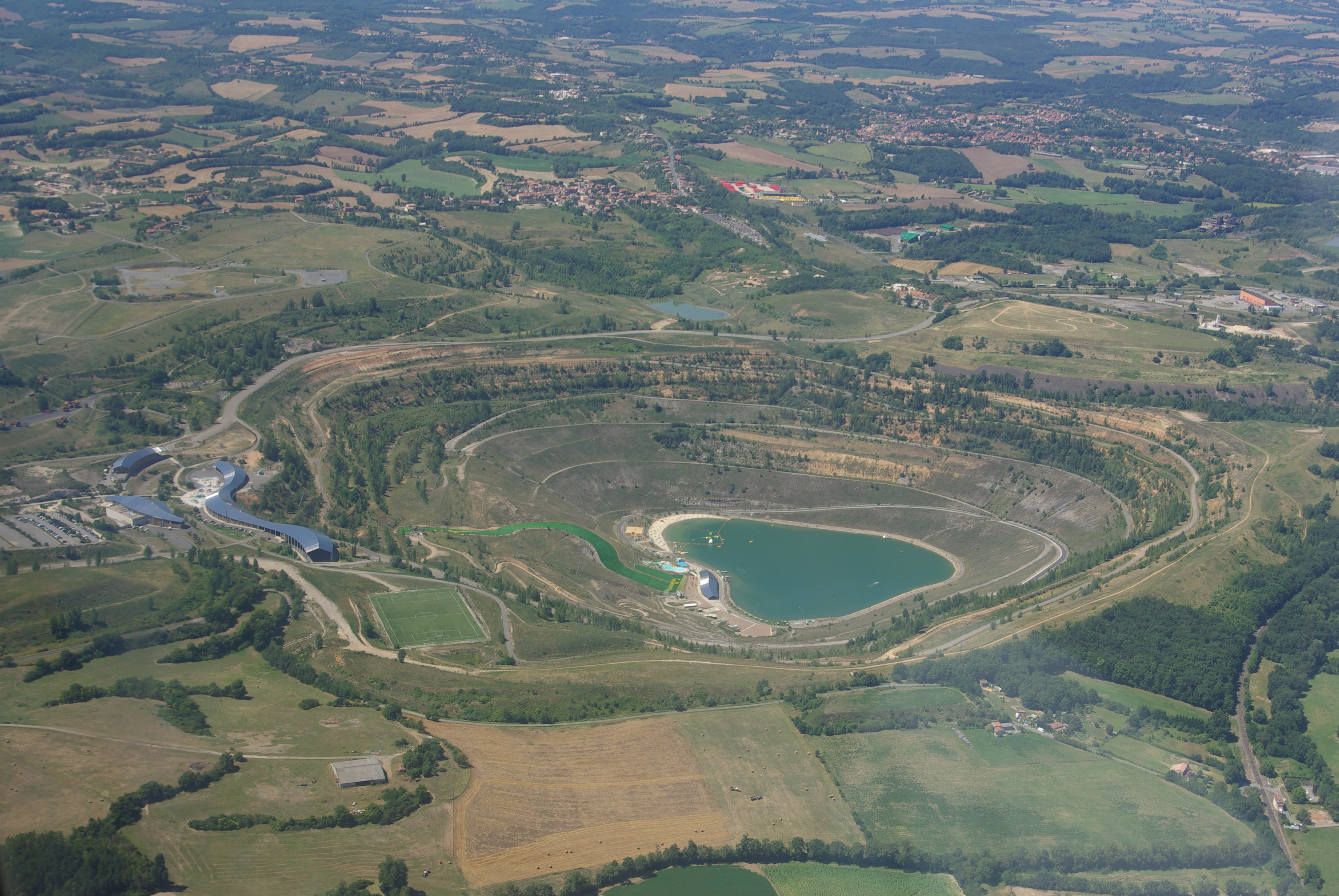 Aerial photo of the site Cap'Découverte at Carmaux (Tarn, France)